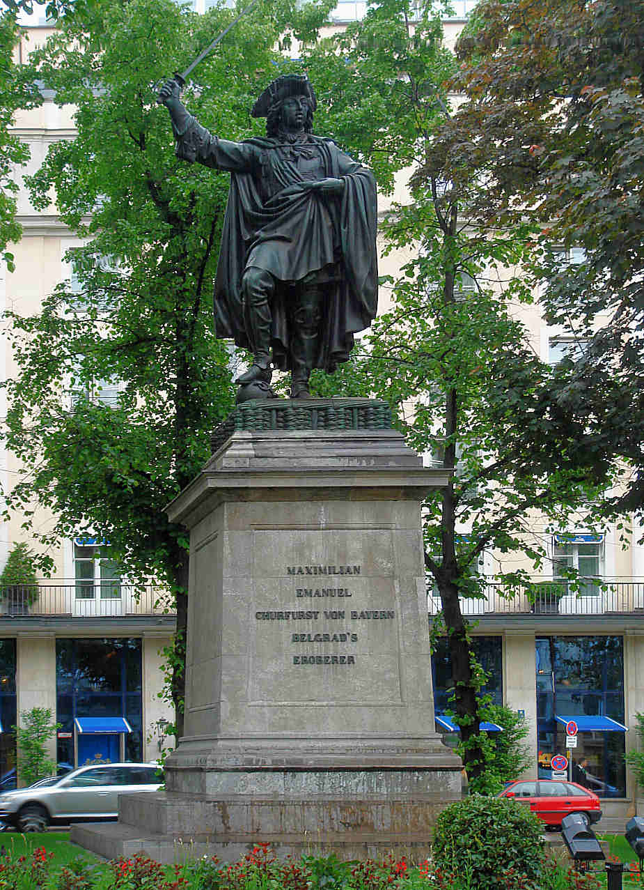 Maximilian II Emanuel, Elector of Bavaria Memorial at Promenadenplatz in Munich, Bavaria. Sculptor: Friedrich Brugger